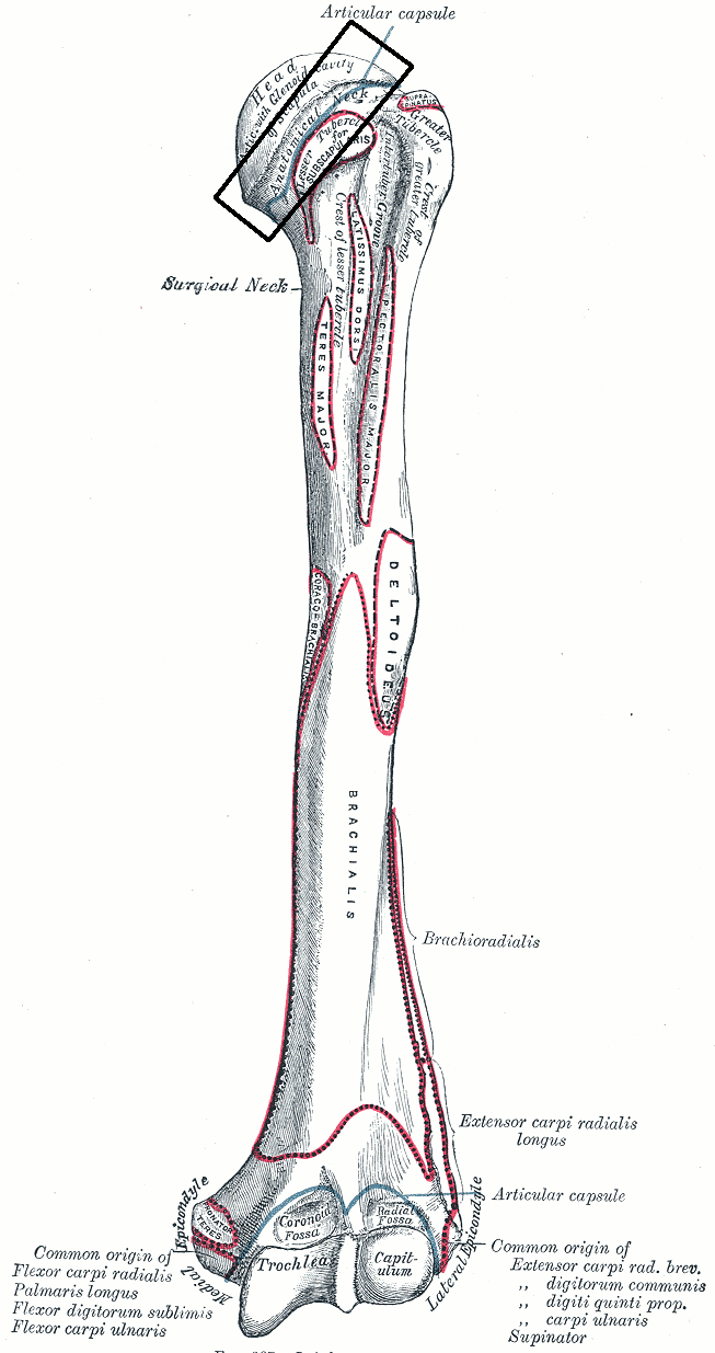 Collum anatomicum humeri